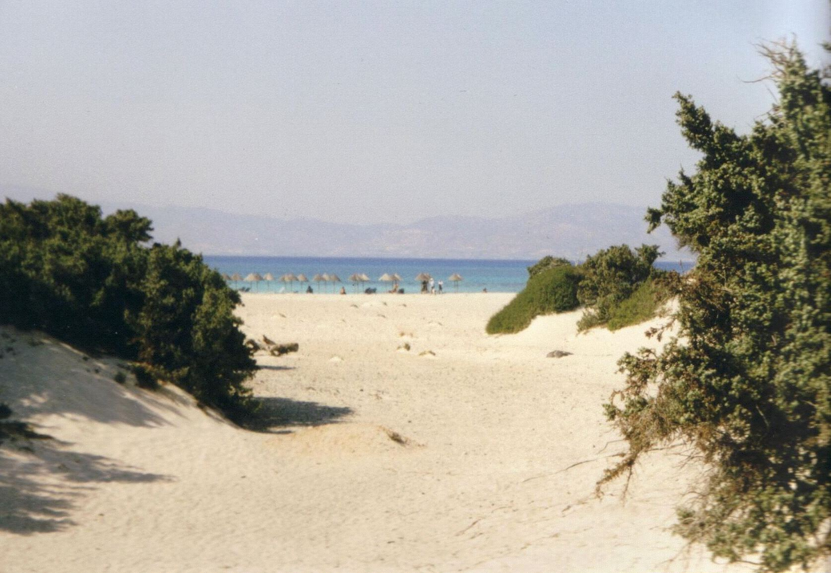 Beach on the island of Chrysi, in the background the coast of Crete.